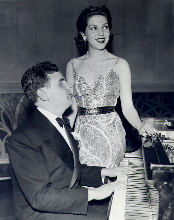 Photo of vocalist Nan Wynn and pianist Alec Templeton.